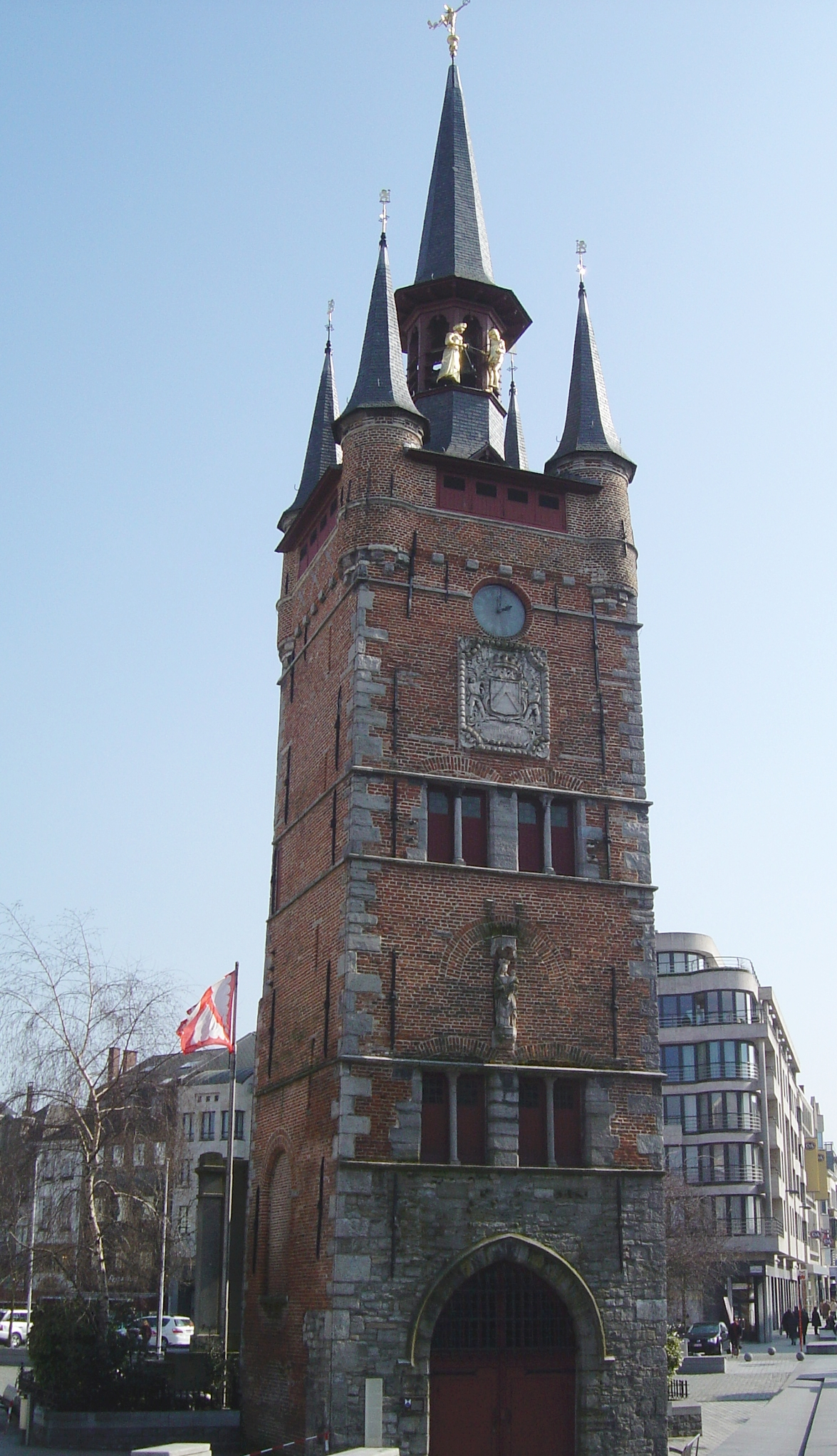 Belfry of Kortrijk (Belgium) I took this picture in march 2006